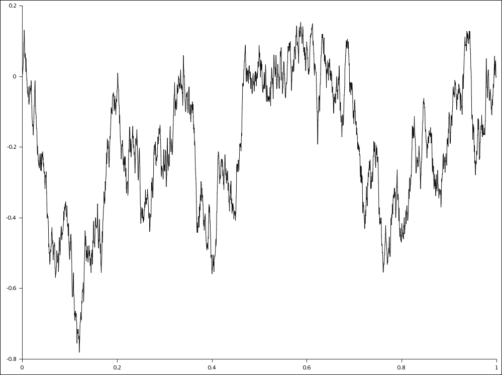 Example of a Brownian bridge.